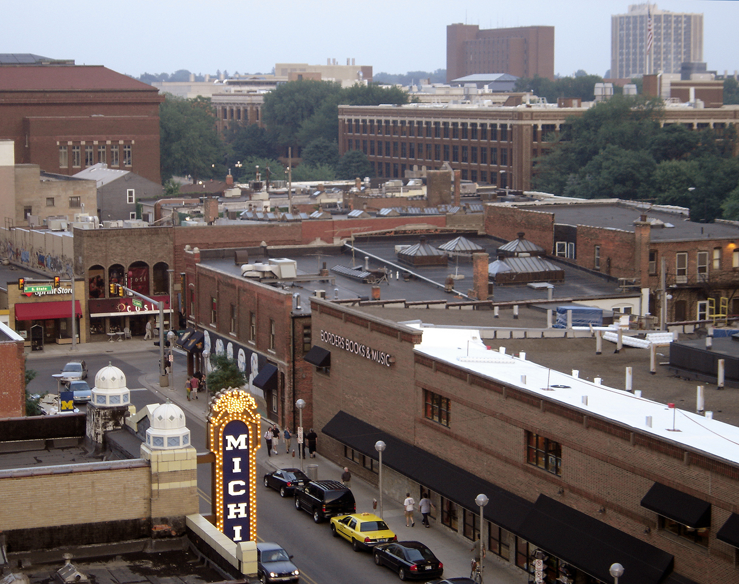 A view of Ann Arbor, Michigan at Liberty Street. Includes the Michigan Theater (Ann Arbor, Michigan), the flagship Borders store, and several buildings of the University of Michigan. The building on the left currently housing a Cosi was the original Borders bookstore, opened in 1971. Слика:Ann Arbor at Liberty Street.jpg